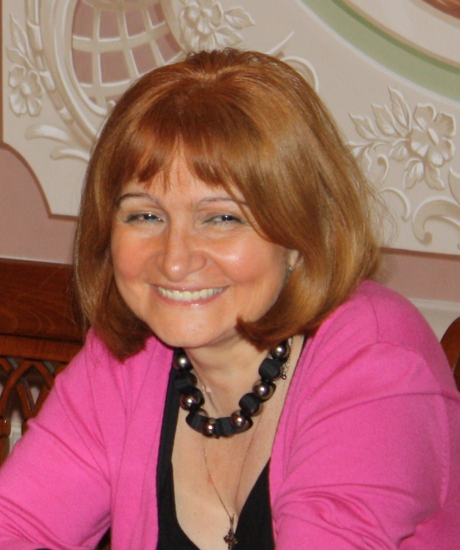 Georgian theater and film director Manana Anasashvili